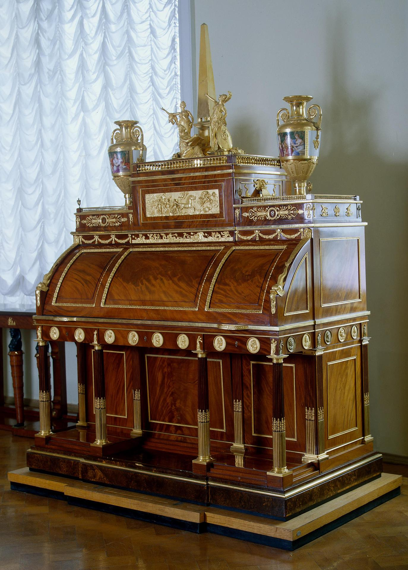 Russian (St. Petersburg); Desk with a Writing Stand, Musical Mechanism and a Bronze Sculptural Group